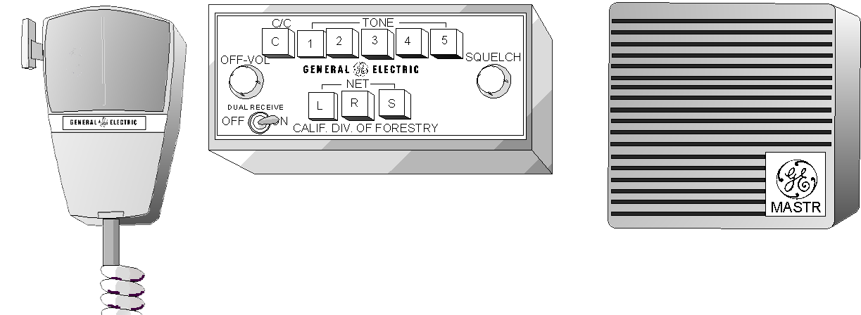 Drawing of a 1970s CDF radio. Please credit David Jordan when using this image.